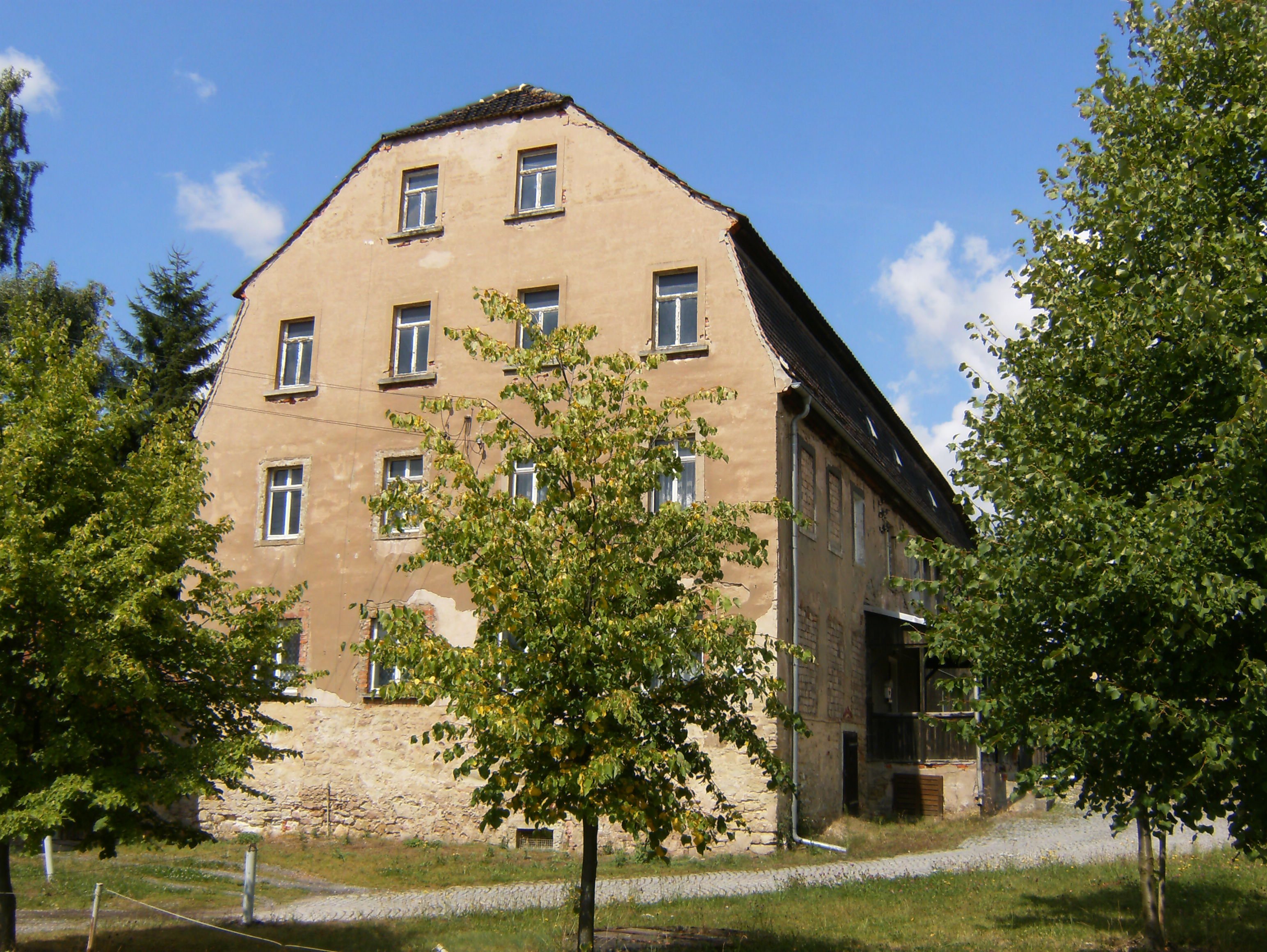 Gera Weißig, further manorial estate.